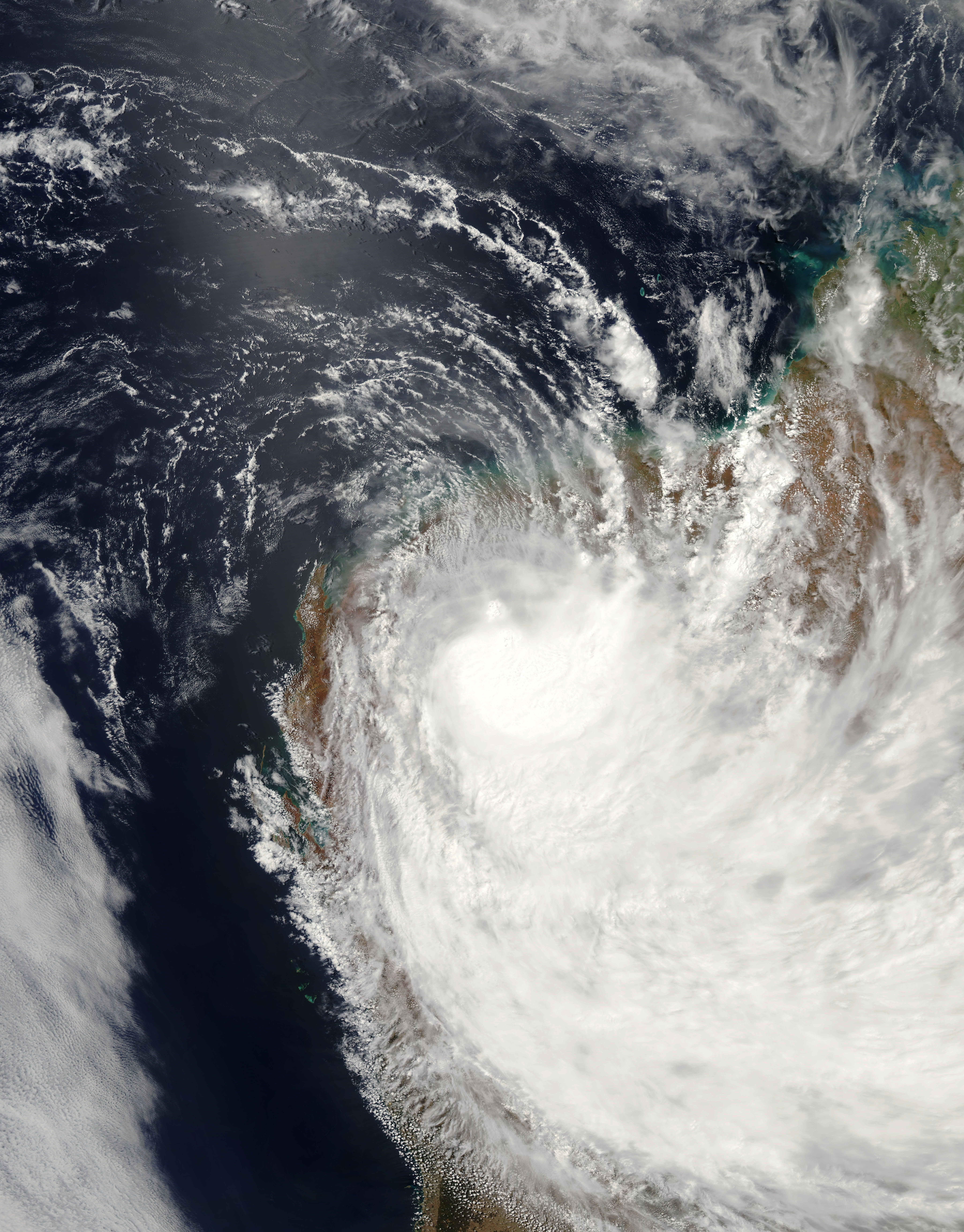 Tropical Cyclone Emma formed as a low-intensity storm system and built to cyclone strength only briefly. But Emma’s brief cyclone status belied its size and rainfall. The Moderate Resolution Imaging Spectrometer (MODIS) instrument on the Aqua observed the storm system as it was losing strength, and hence its tropical cyclone status, on February 28, 2006, at 5:55 UTC (1:55 p.m. local time). At this time, the cyclone had peak winds of roughly 55 kilometers per hour (35 miles per hour). As the image shows, the storm system covered an enormous area, extending over almost the entire extent of Western Australia. With it came heavy rain and substantial flooding to the Pilbara Region, the northwestern corner of Western Australia, where the storm system came ashore.